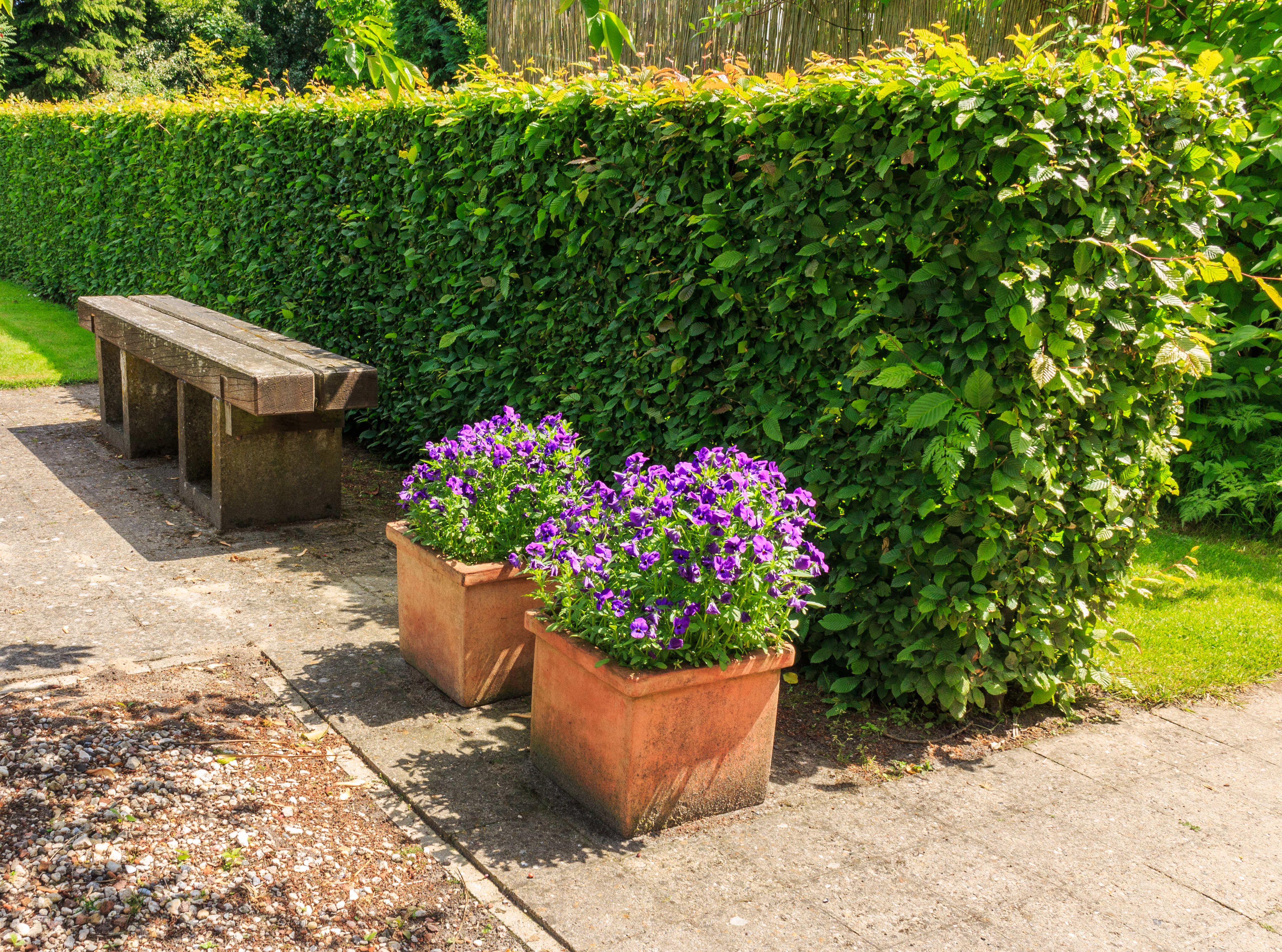 Square Flowerpots. Location, Mien Ruys Gardens.